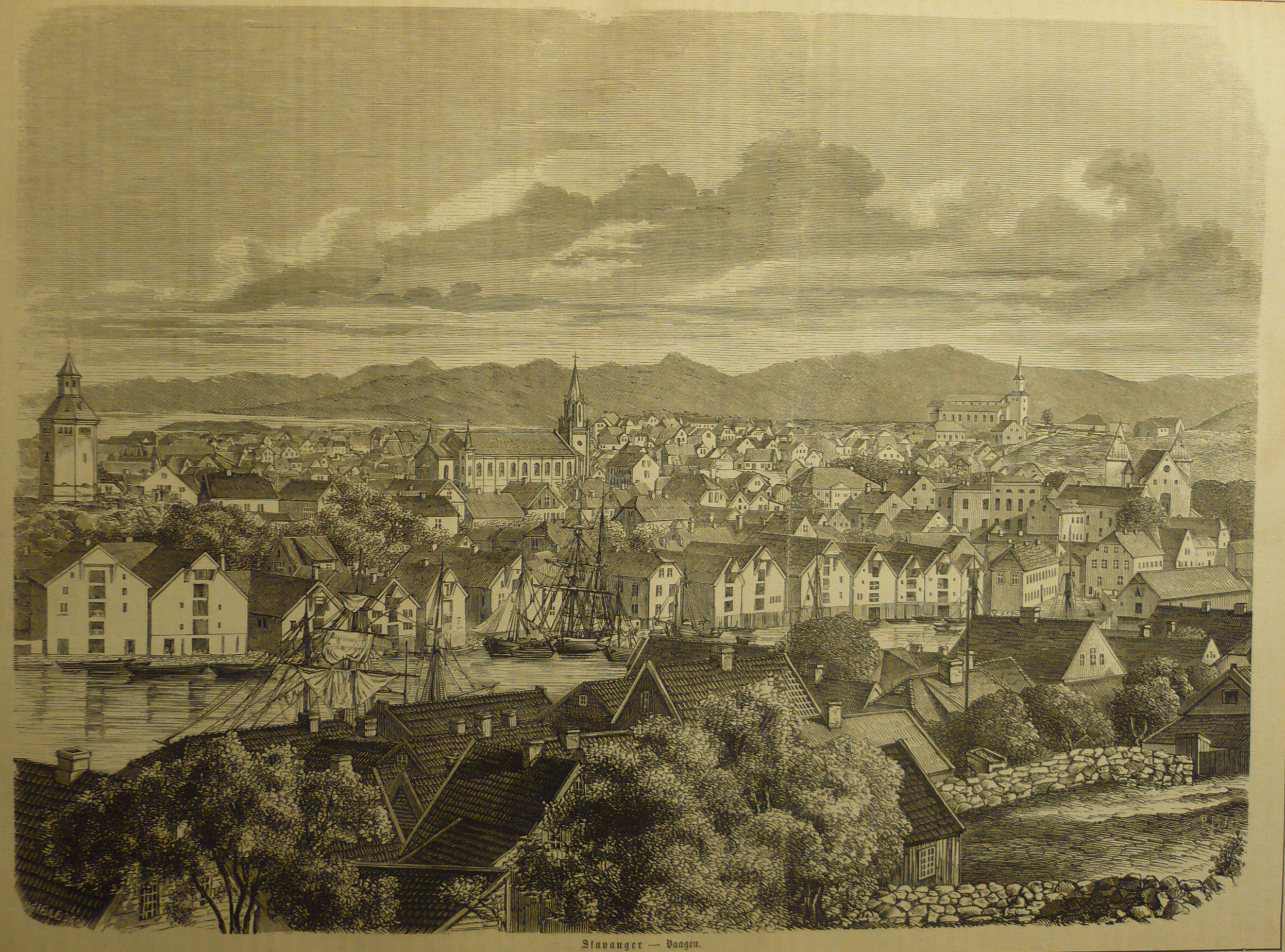 Drawing of Skagen in Stavanger in 1867. From Norsk Folkeblad, 1867.